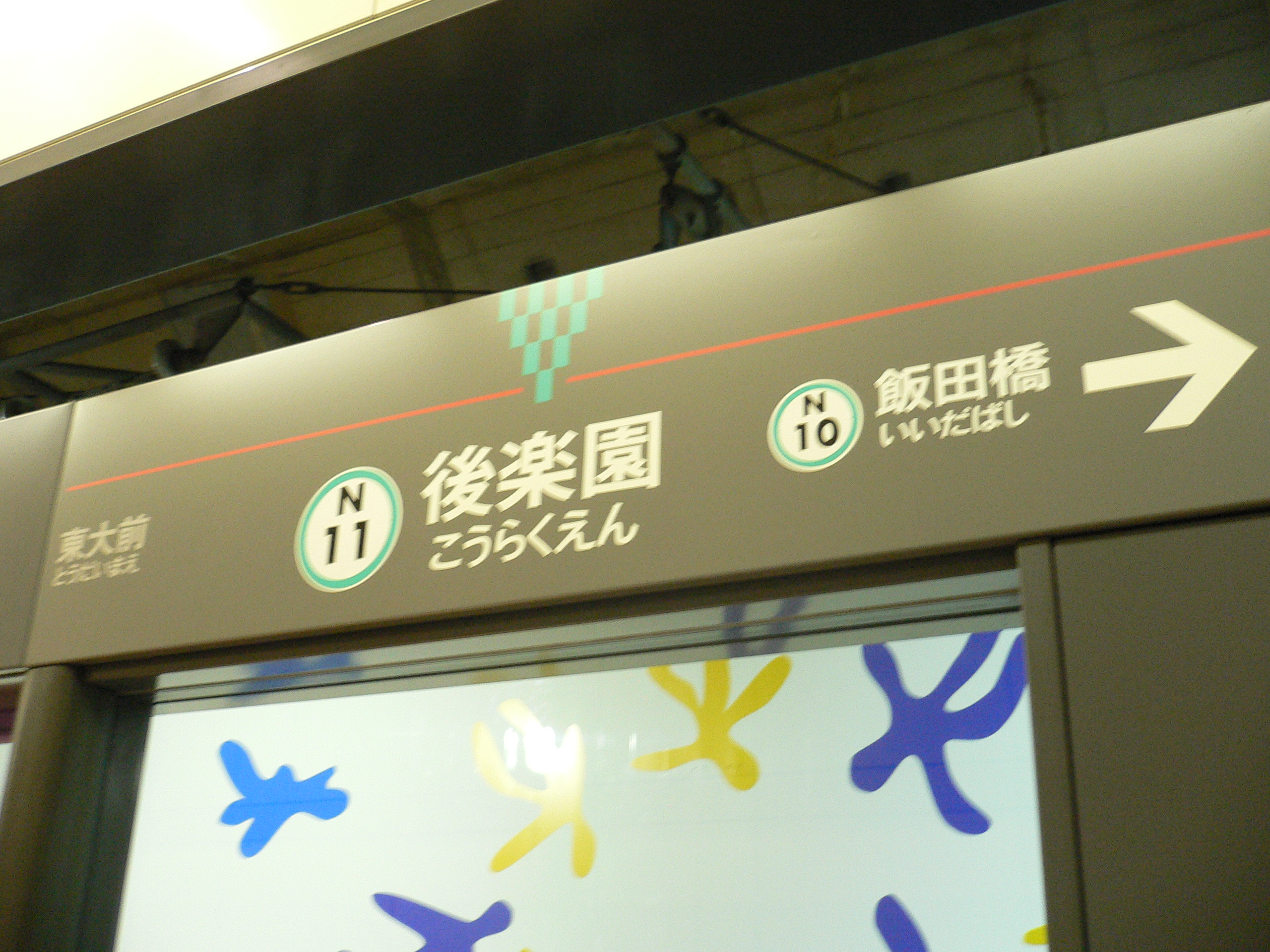 Korakuen Station(後楽園駅),Bunkyo W, Tokyo M.